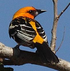 Streak-backed Oriole